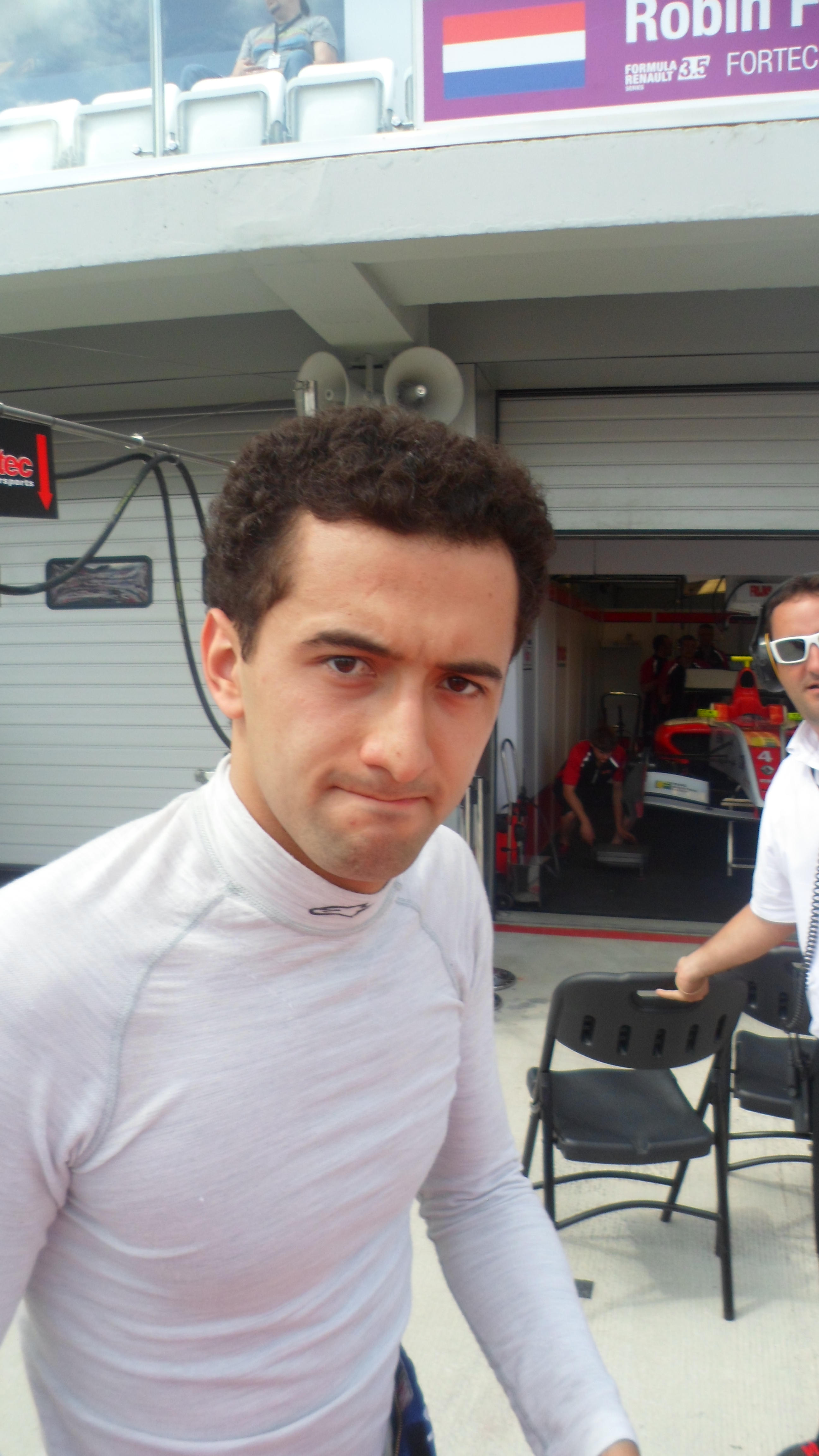 Carlos Huertas on autograph session at Moscow Raceway, 14 July 2012